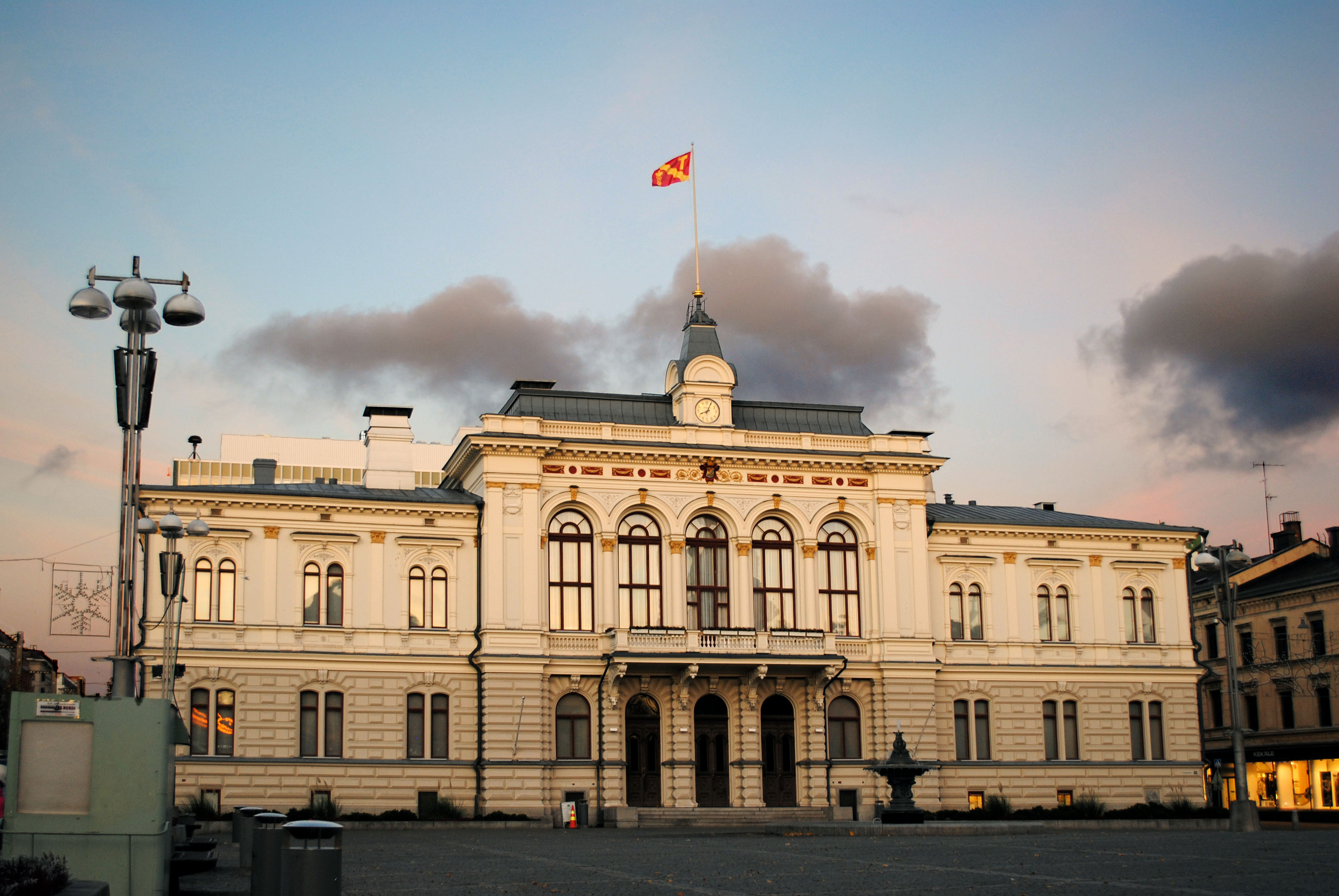 Tampere city hall